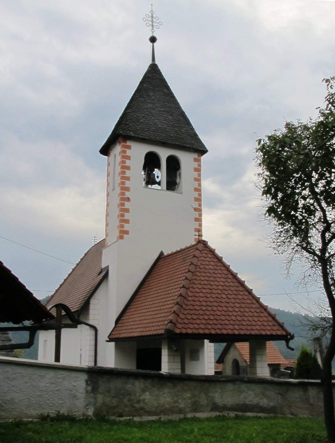 Saint Paul's Church in the settlement of Šentpavel in the City Municipality of Ljubljana, Slovenia